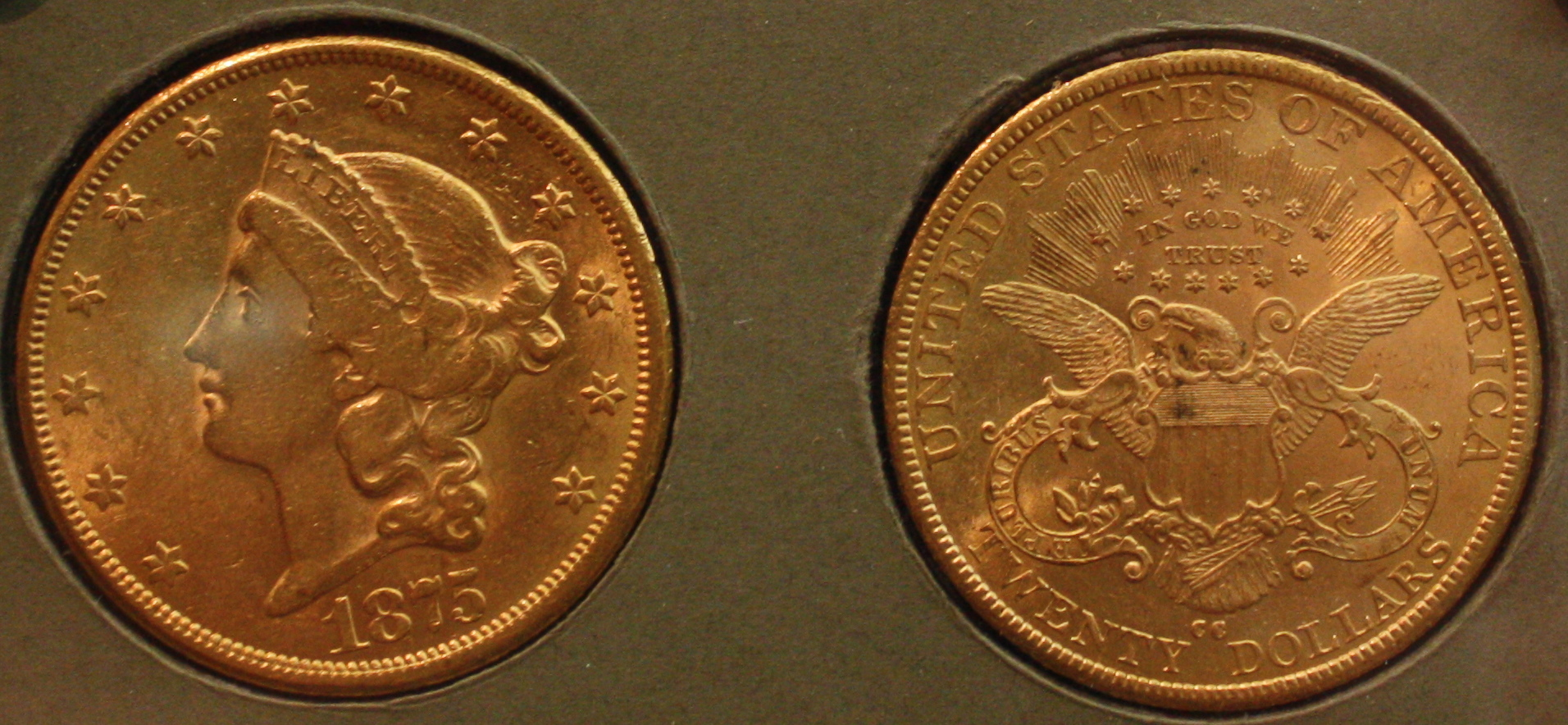 1875-CC double eagle, struck at the Carson City mint.